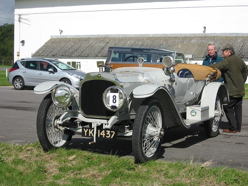 1912 Vauxhall A12, Four cylinders, 95 x 120mm, 3,418 c.c. 21 built between June and November 1912